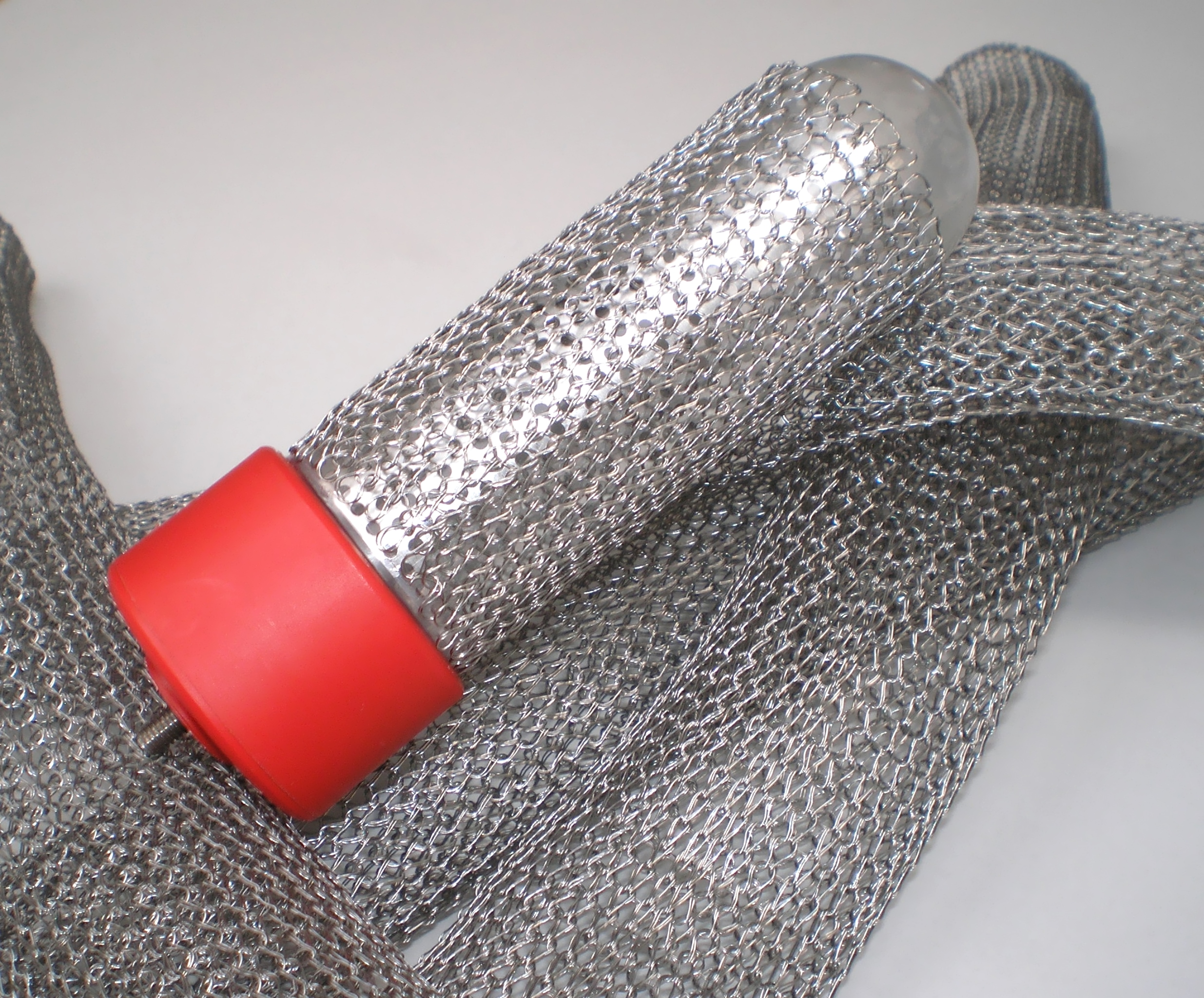 Stainless steel knitted fabric on a ionization tube, this knitted fabric is used as the outer electrode.